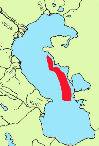 The range of Benthophilus svetovidovi